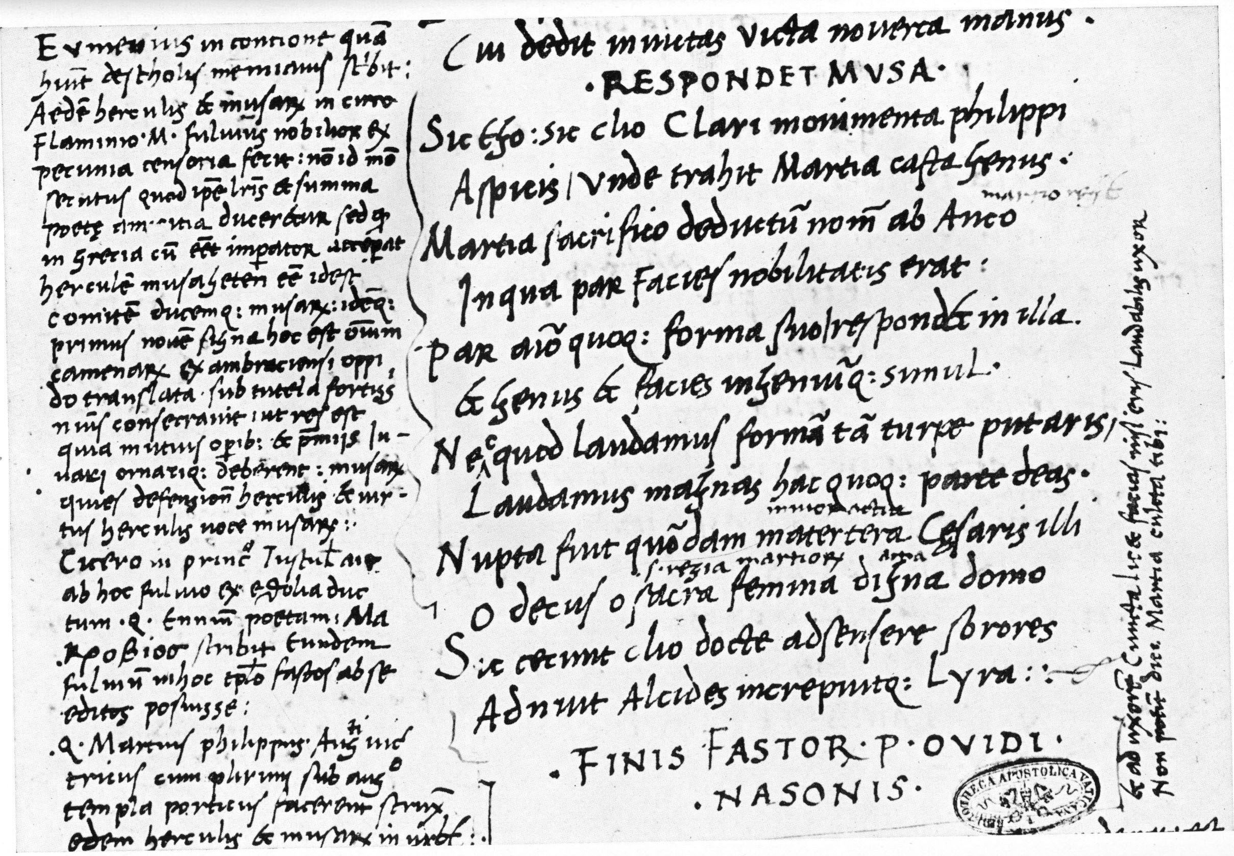 Ovid, Fasti. Manuscript created by Humanist Julius Pomponius Laetus. Vatican library, Vat. lat. 3263, fol. 119v.